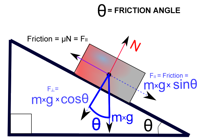 A diagram of the friction angle between two objects.